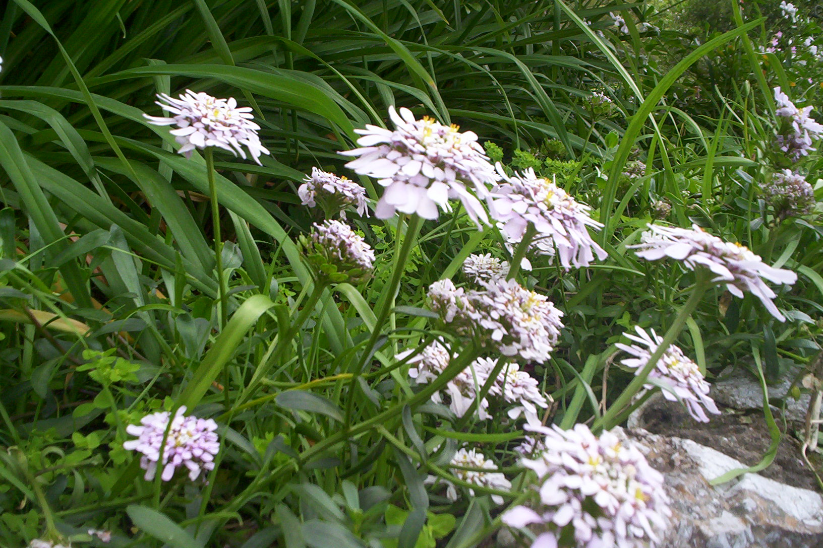 A photograph of the Gibraltar candytuft taken in the Alameda Gardens (Gibraltar) on the 1st January 2003.